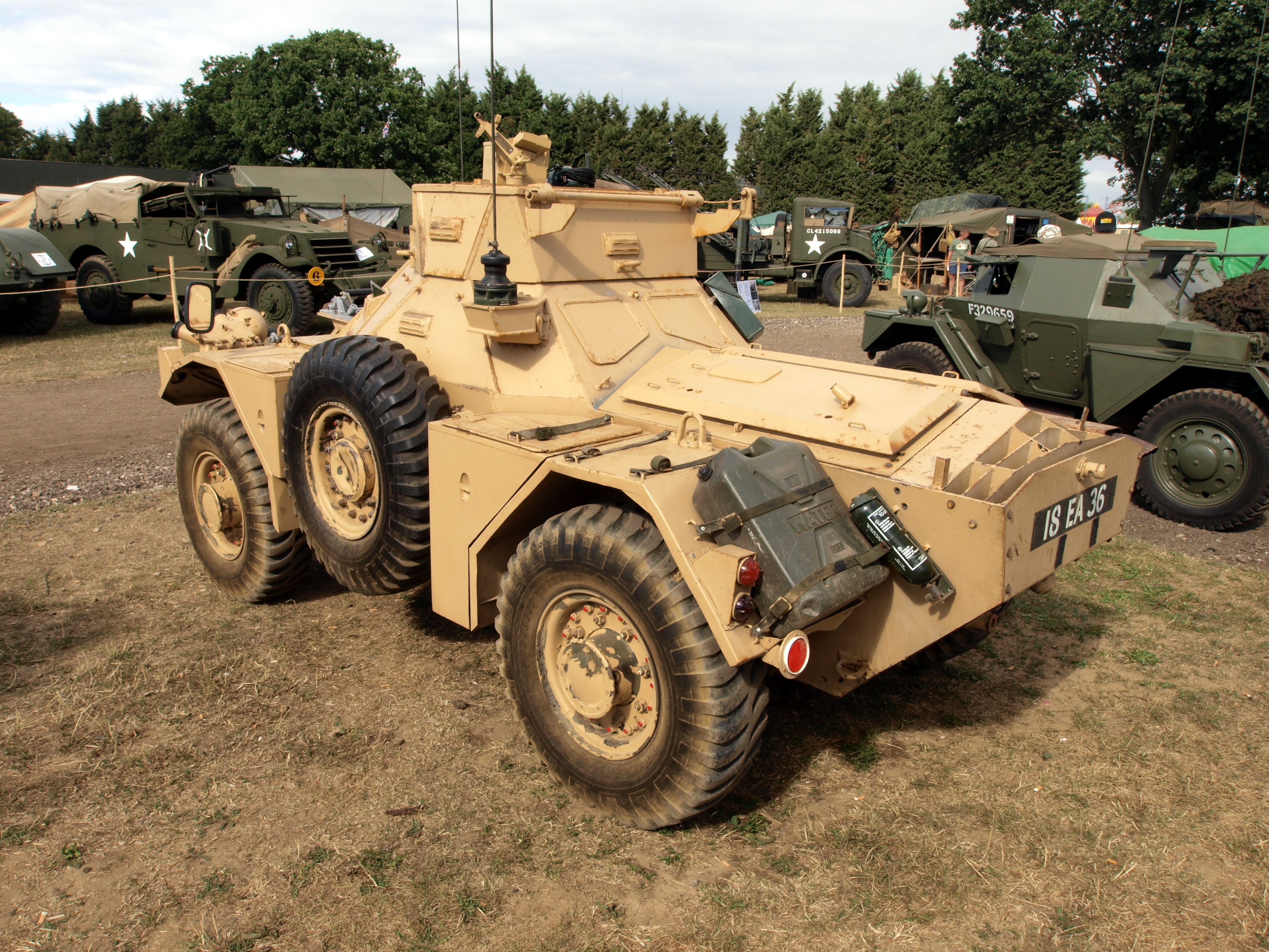 Daimler Ferret armoured at the War and Peace show 2010.